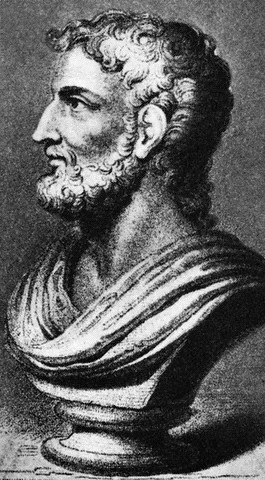 Drawing of the Roman historian Cornelius Tacitus' bust.